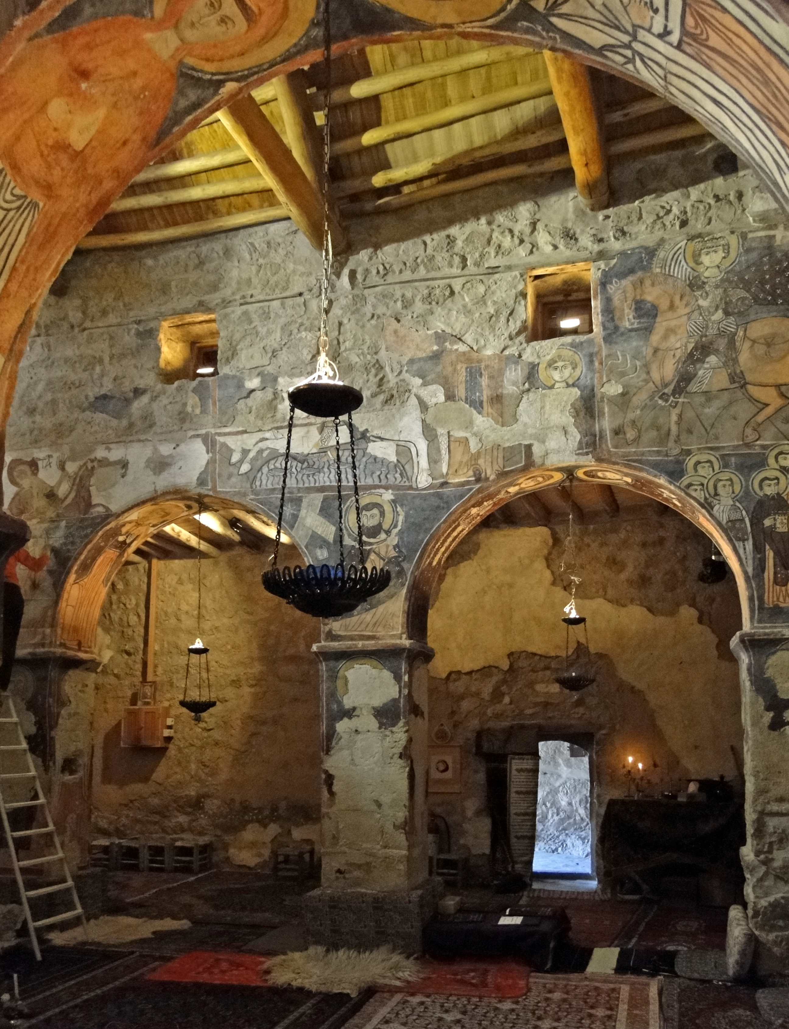 Interior of the Church of Deir Mar Musa al-Habashi or Monastery of Saint Moses the Abyssinian, Syria